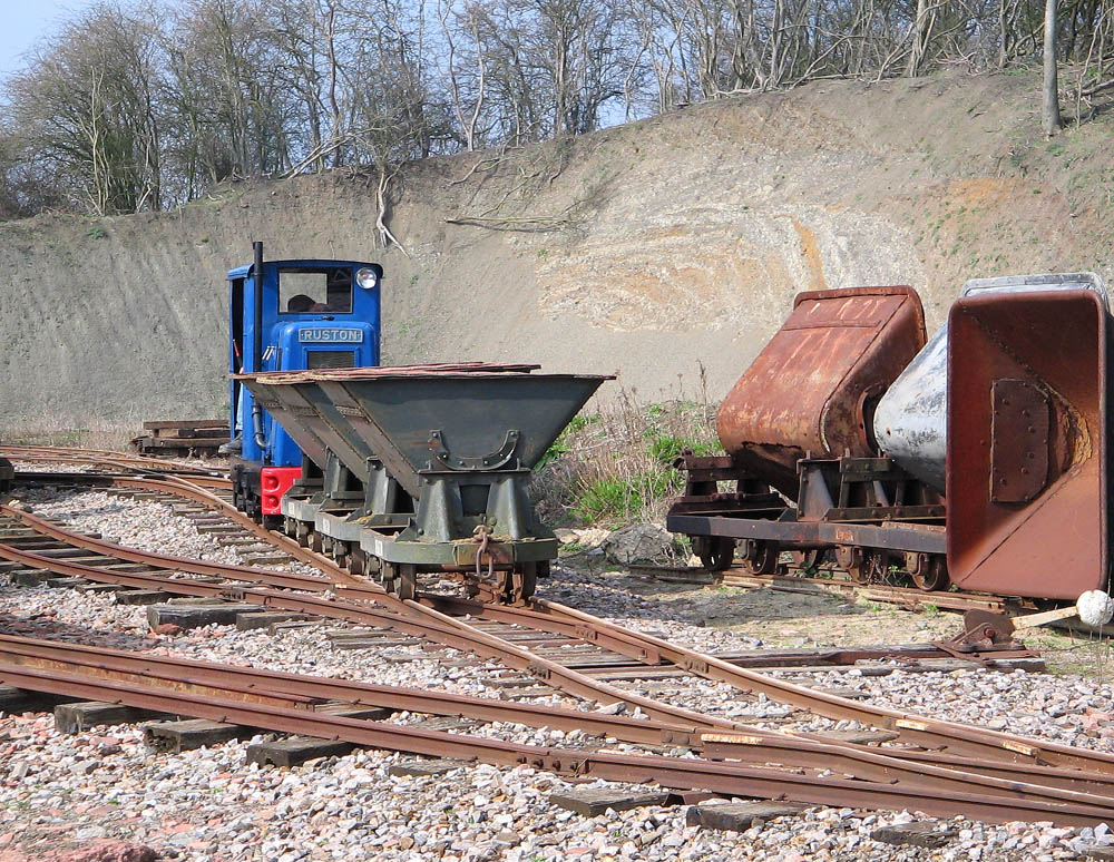 A display of a sand train, part of the industrial railway display at the Leighton Buzzard Railway in England. Photo by G-Man March 2005